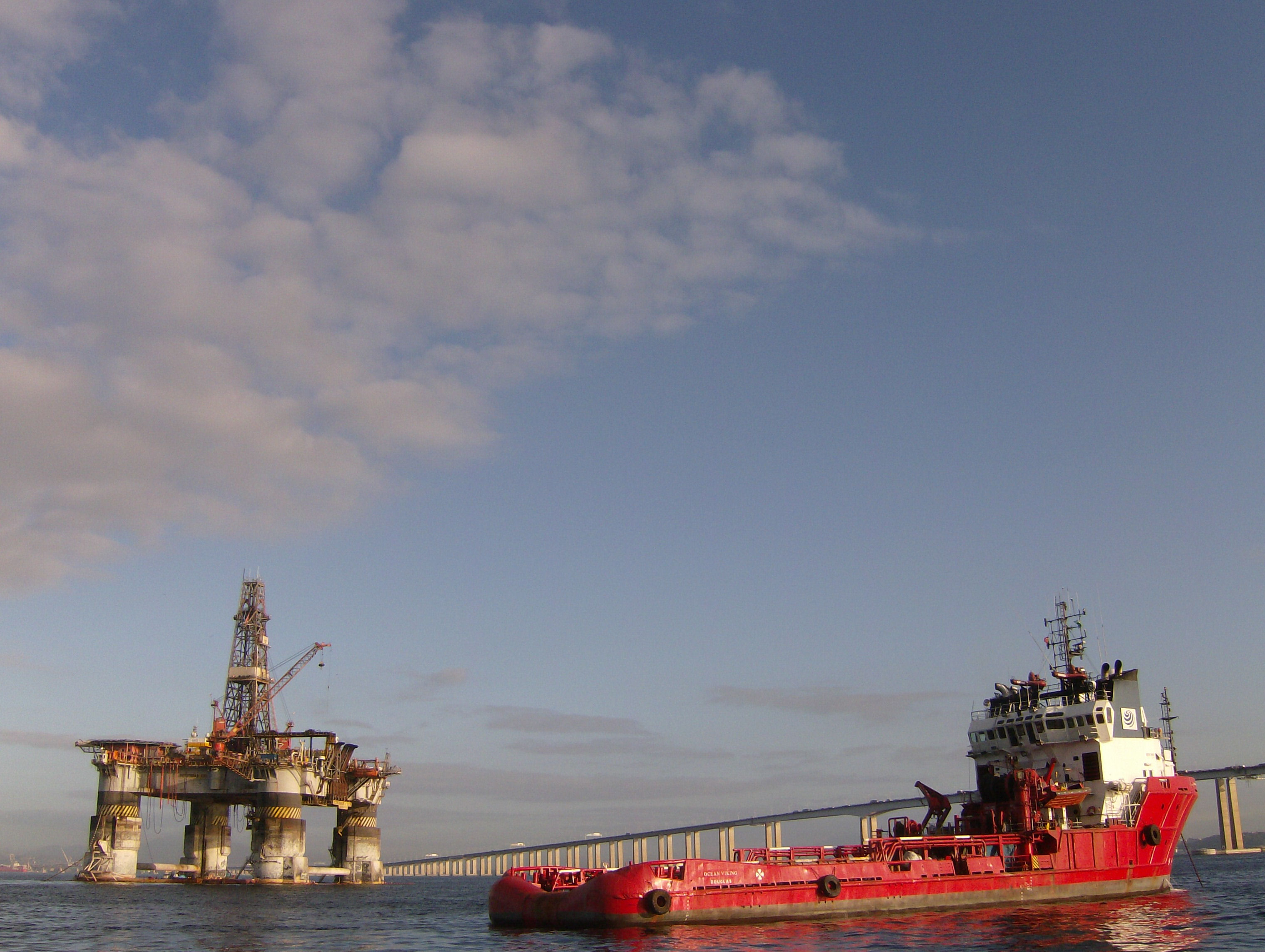 Anchor Handling Ocean Viking